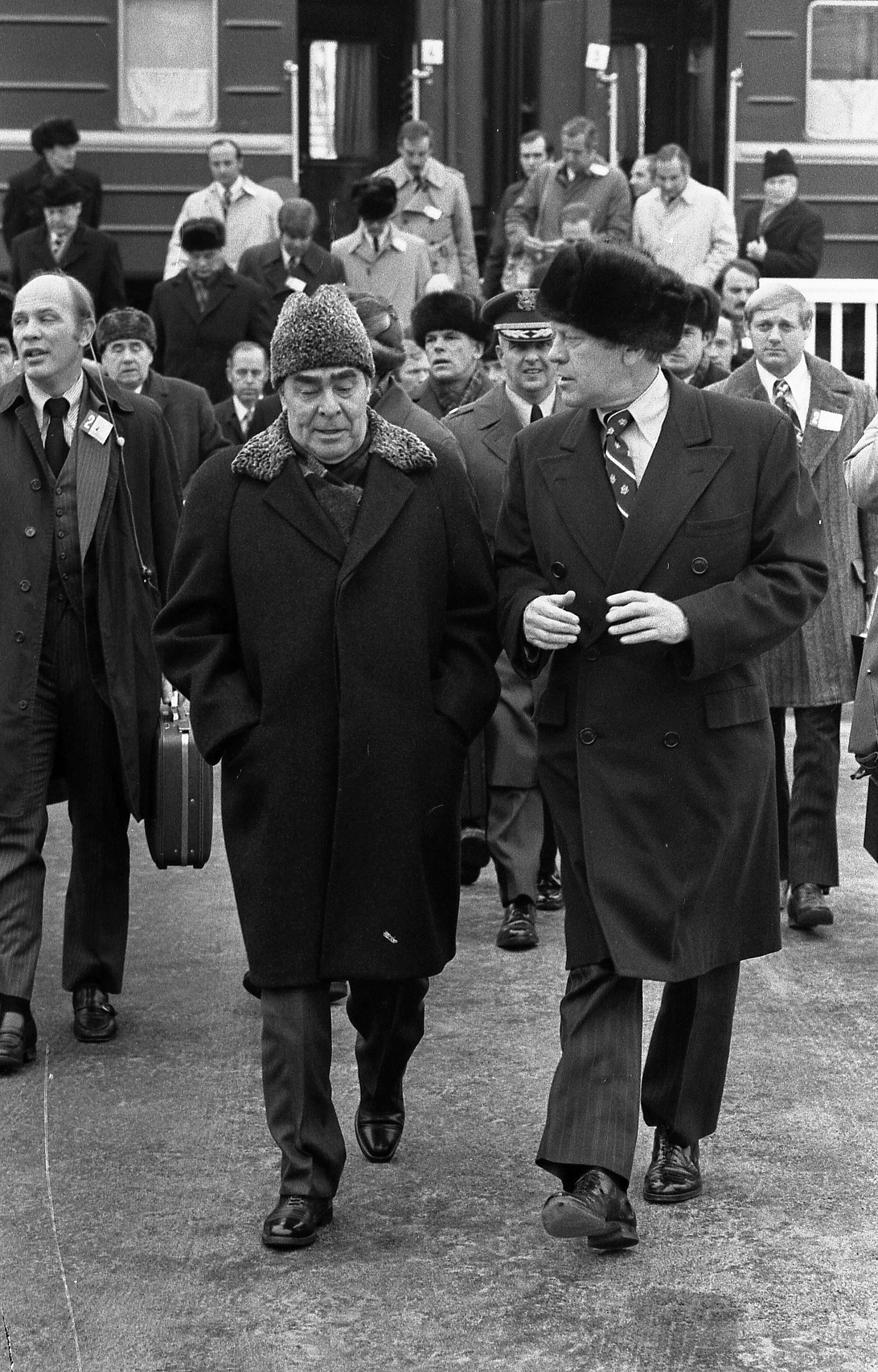 President Ford and Soviet General Secretary Leonid I. Brezhnev depart from the train upon their arrival at the Okeansky Sanitarium, Vladivostok, USSR.